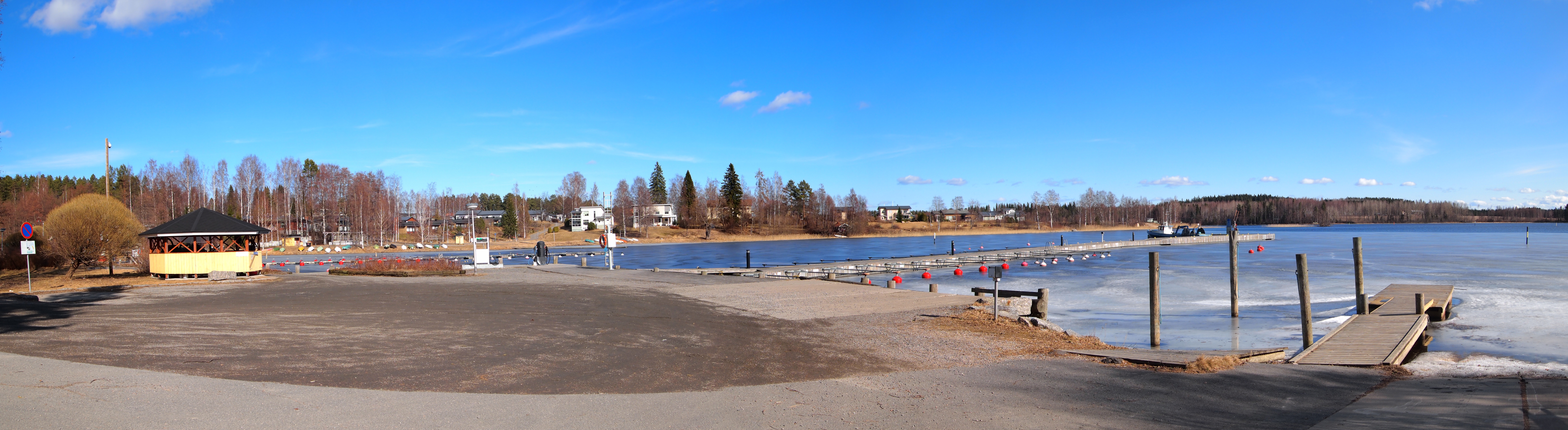 Harbour in Laukaa, Finland.